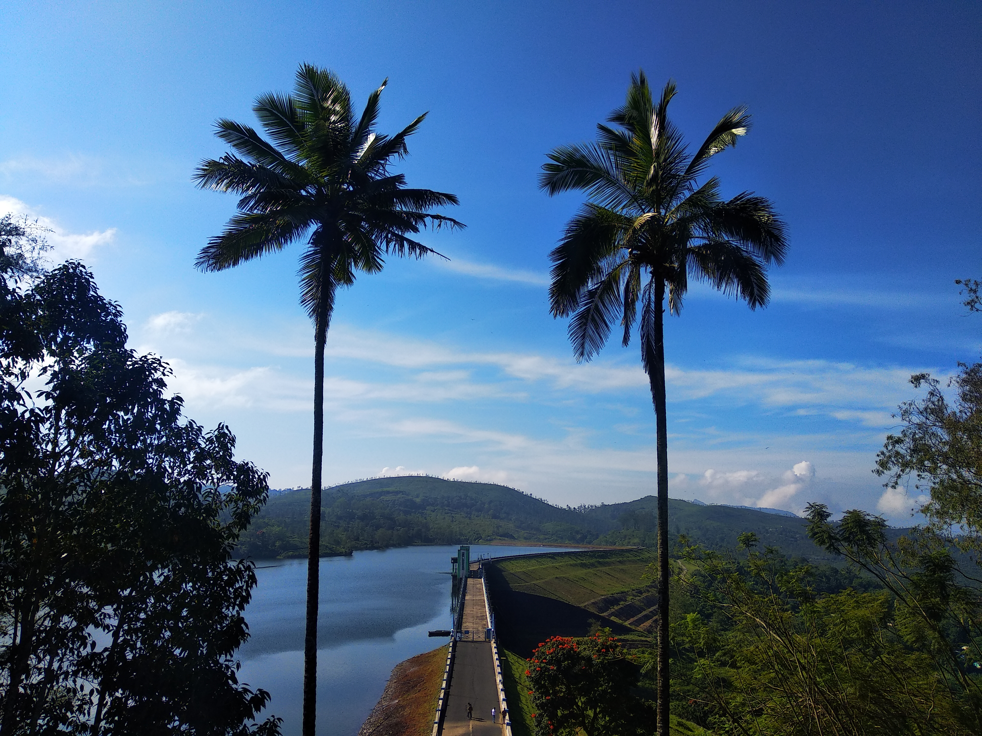 Dam Sholayar View from Sholayar House